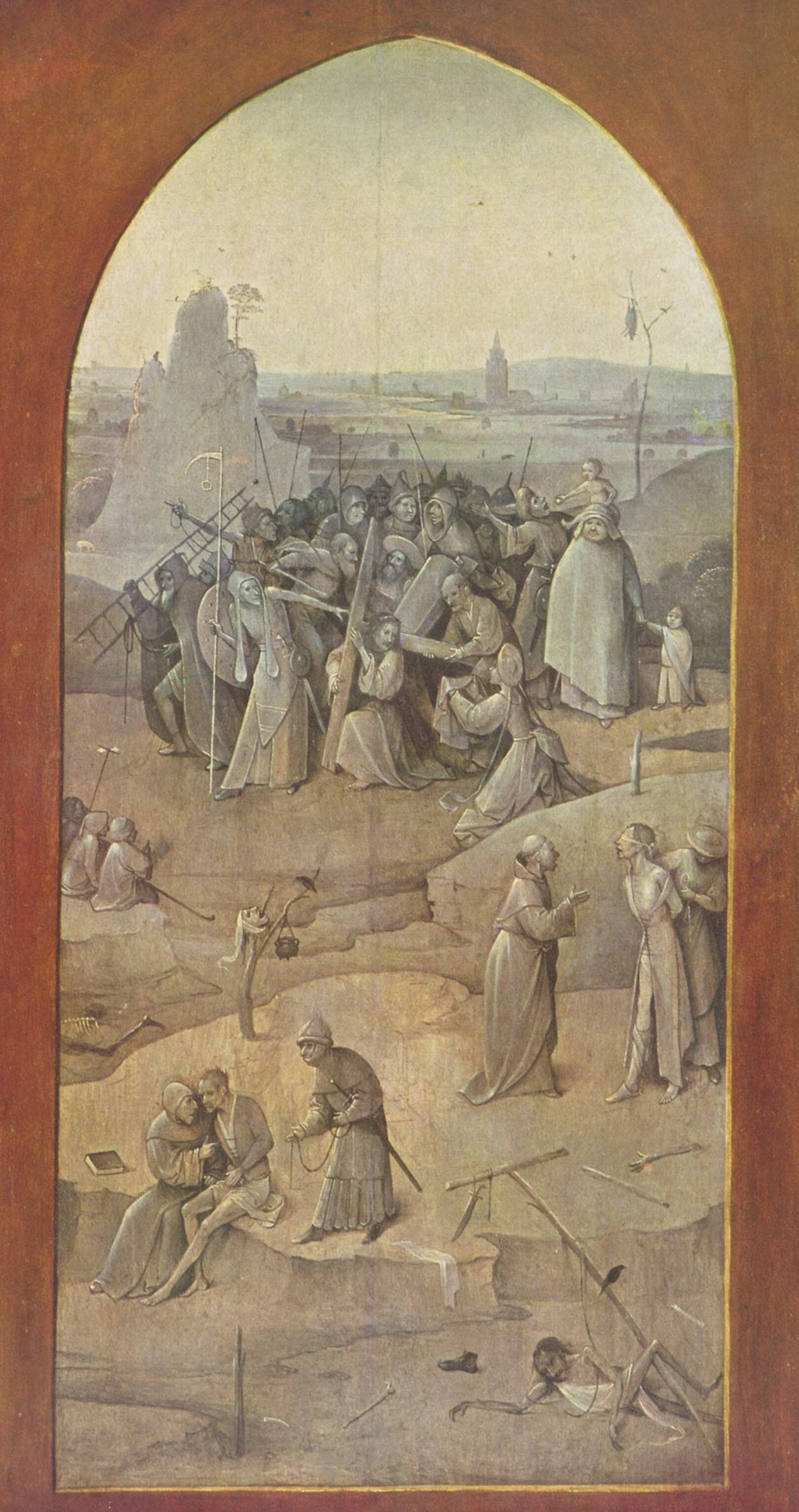 Outer right wing of a triptych depicting The Temptation of Saint Anthony.